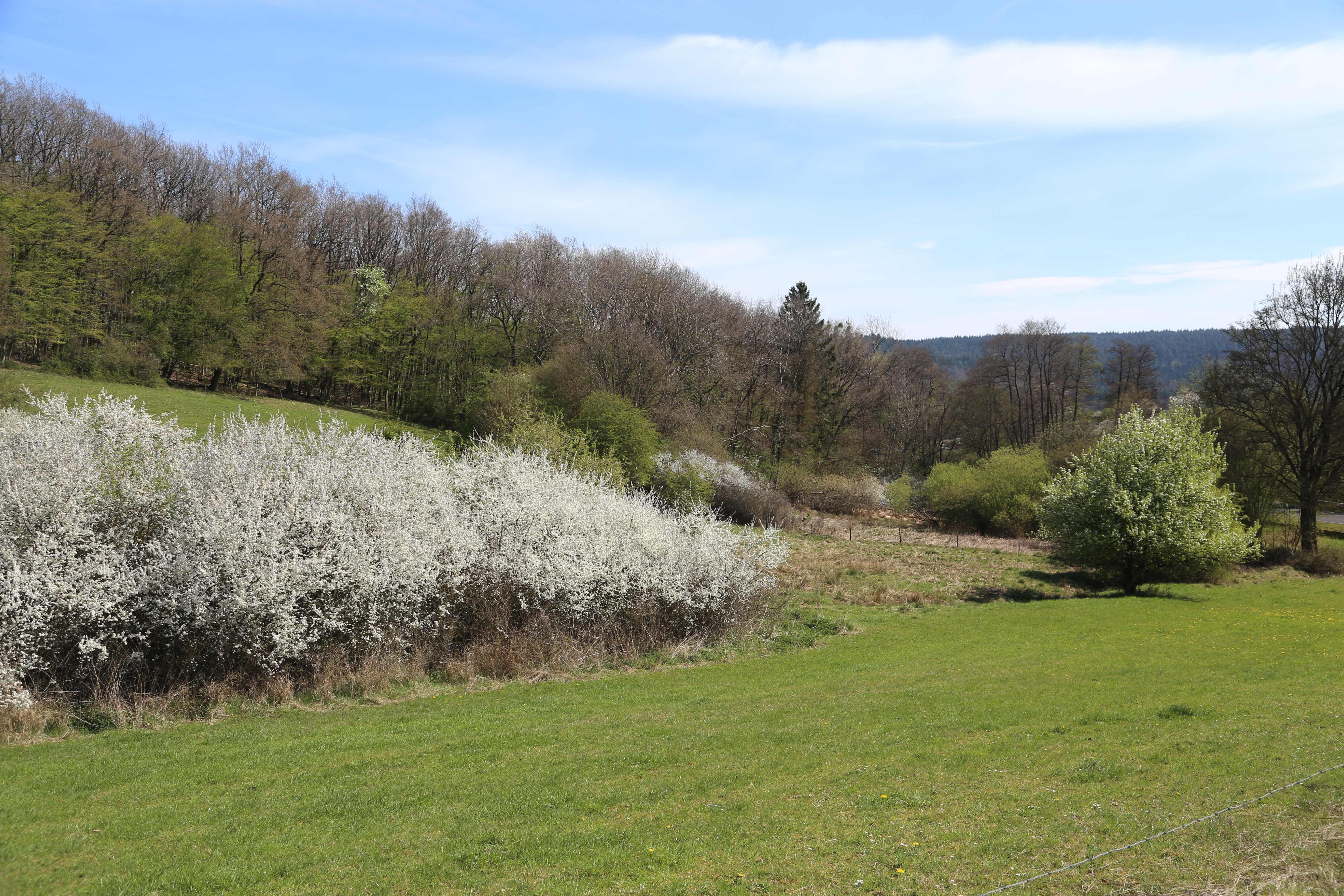 Nature reserve "Schoenecker Schweiz", Rhineland-Palatia, Germany, with Sloeblossoms (Prunus spinosa)